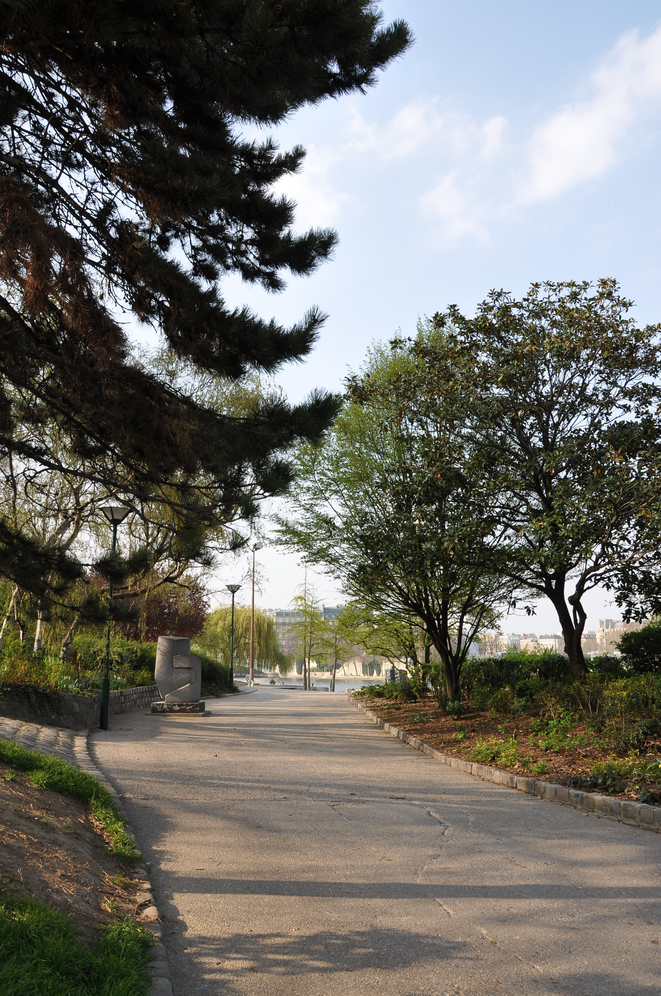 Garden Tino Rossi on the Quai St Bernard in the 5th district of Paris, France.